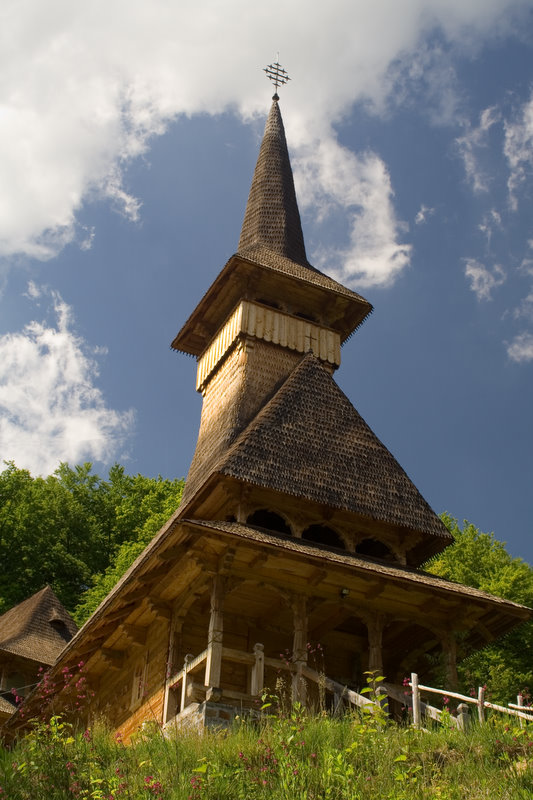 Rohia Monastery, Maramureş, Romania - wooden church